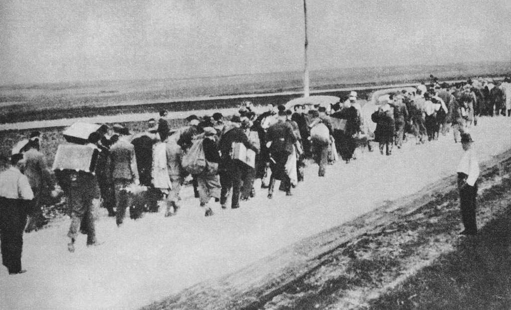 Polish civilians escaping their cities in consequence of information about German atrocities and orders of Polish authorities for planned evacuation in September 1939.